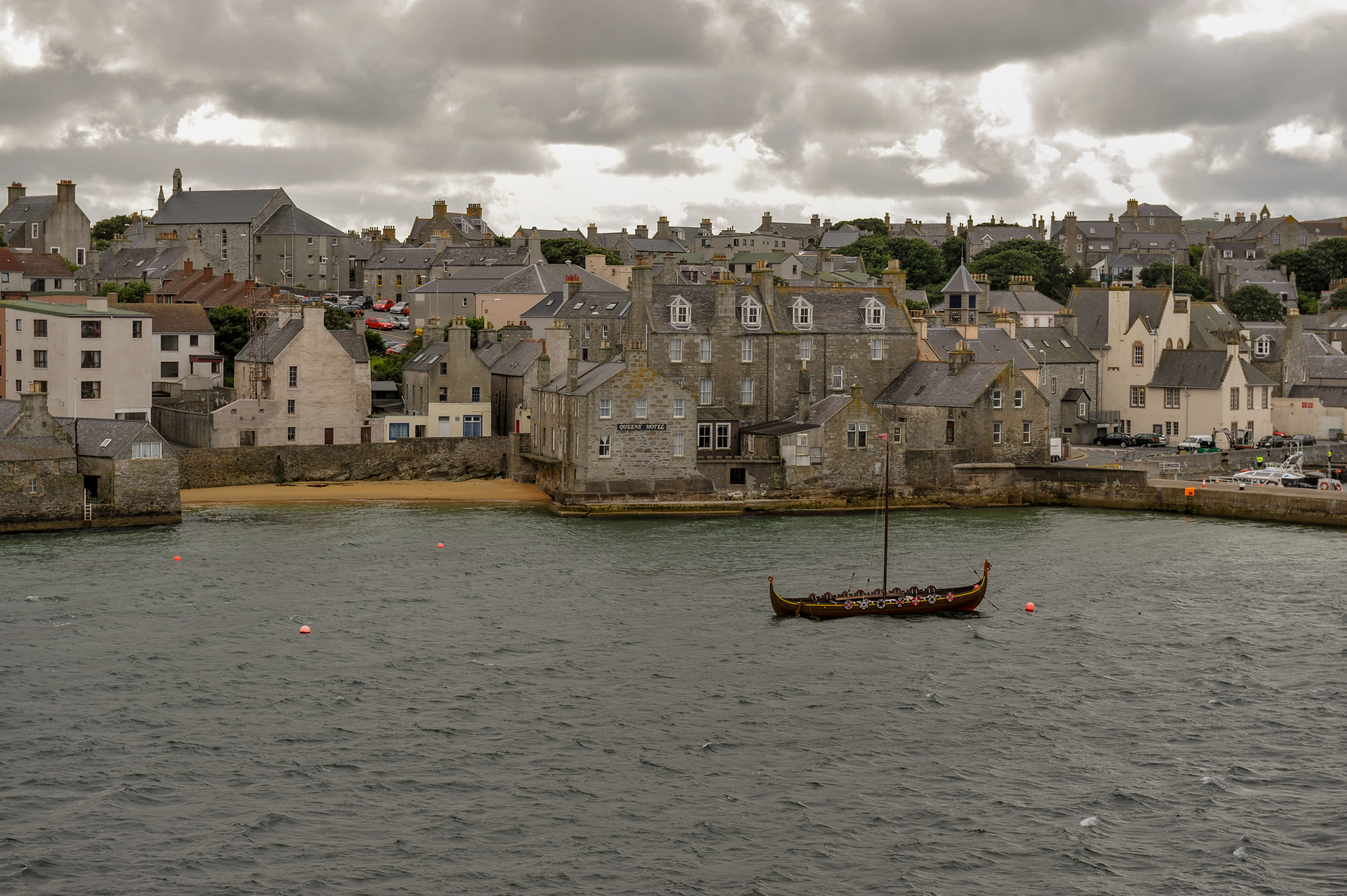 Lerwick, Shetland, Scotland